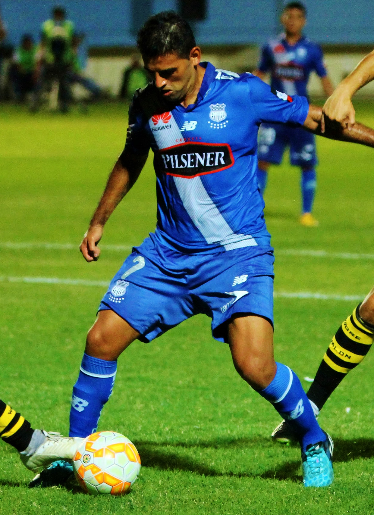 Manta, martes 24 de febraro del 2015 (ANDES).-Emelec golea 3x0 all The Strongest de Bolívia en el estadio Jocay de la ciudad de Manta, Manabí, partido jugado por Copa Libertadores.Foto:César Muñoz/ANDES